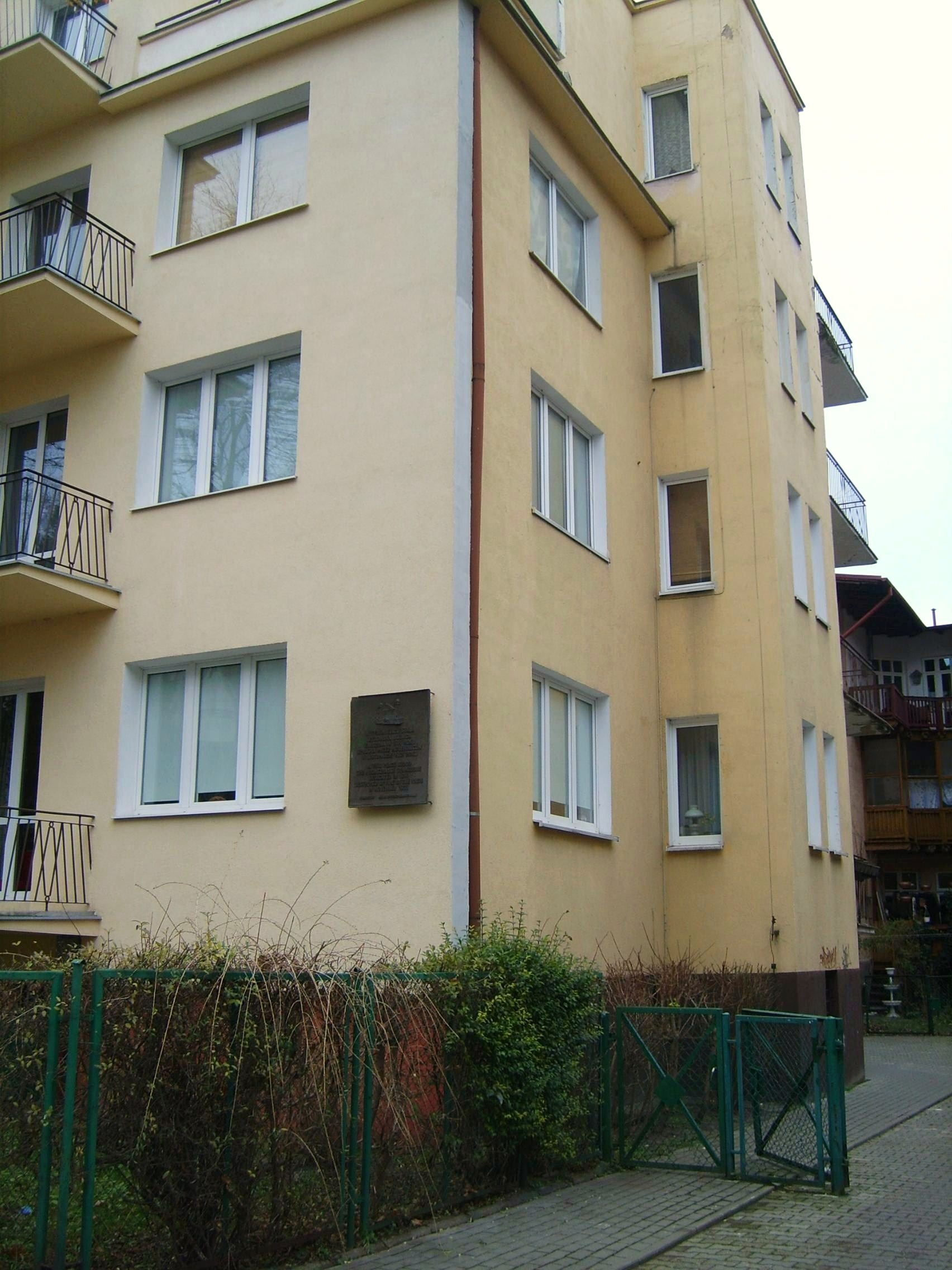 Synagogue in Sopot.